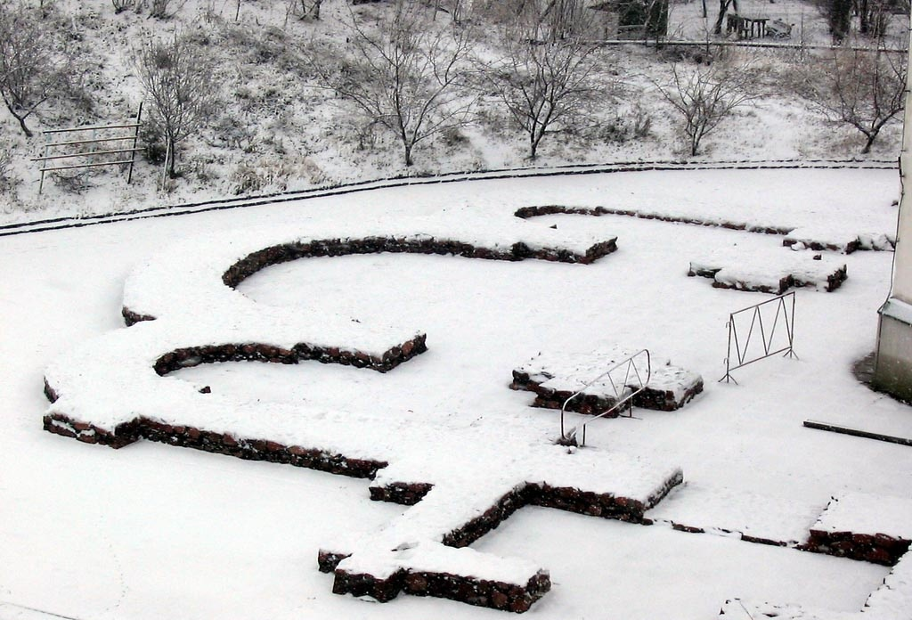 Foundation of the Church of the Saviour at Berestove in Kiev, Ukraine in snow.